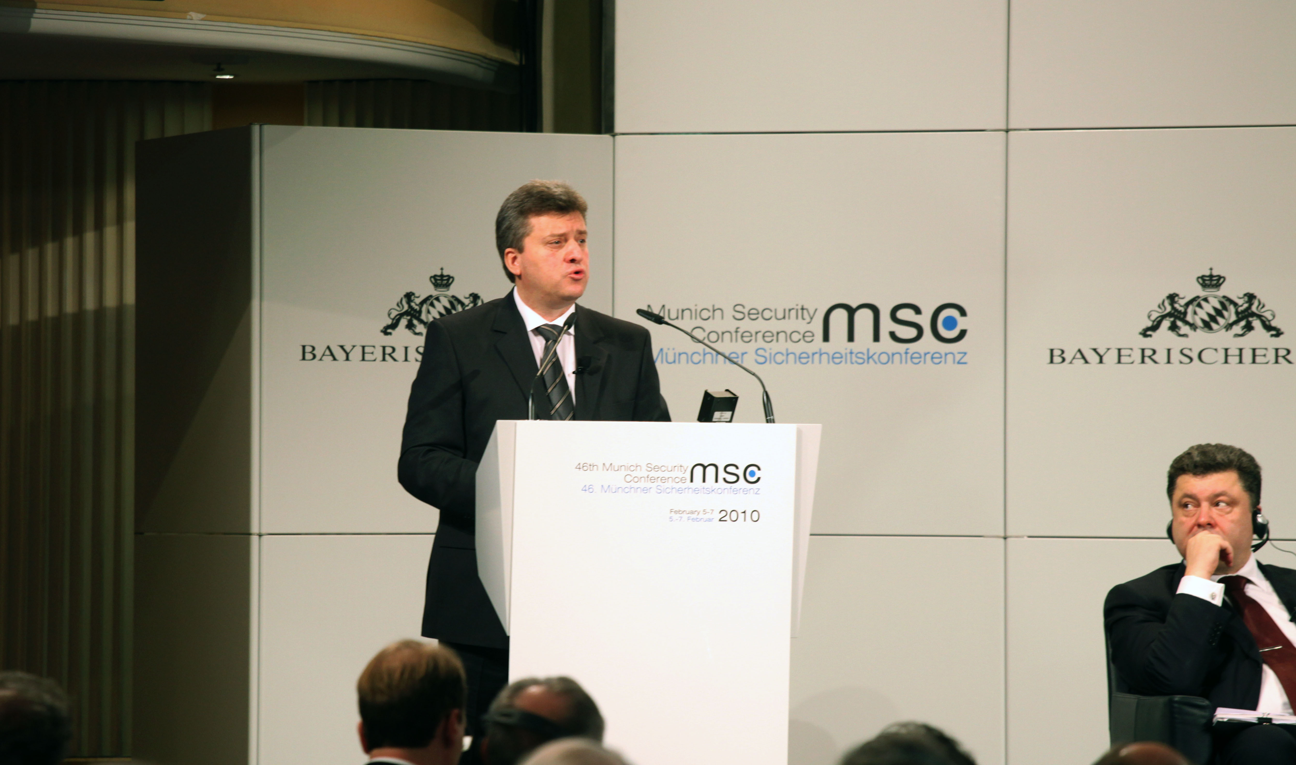 46th Munich Security Conference 2010: Dr. Gjorge Ivanov, President, Macedonia, during his speech.